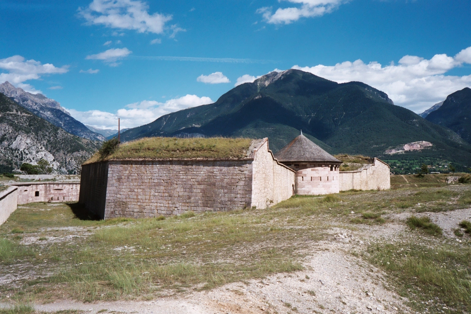 Mont-Dauphin, place fortified by Vauban